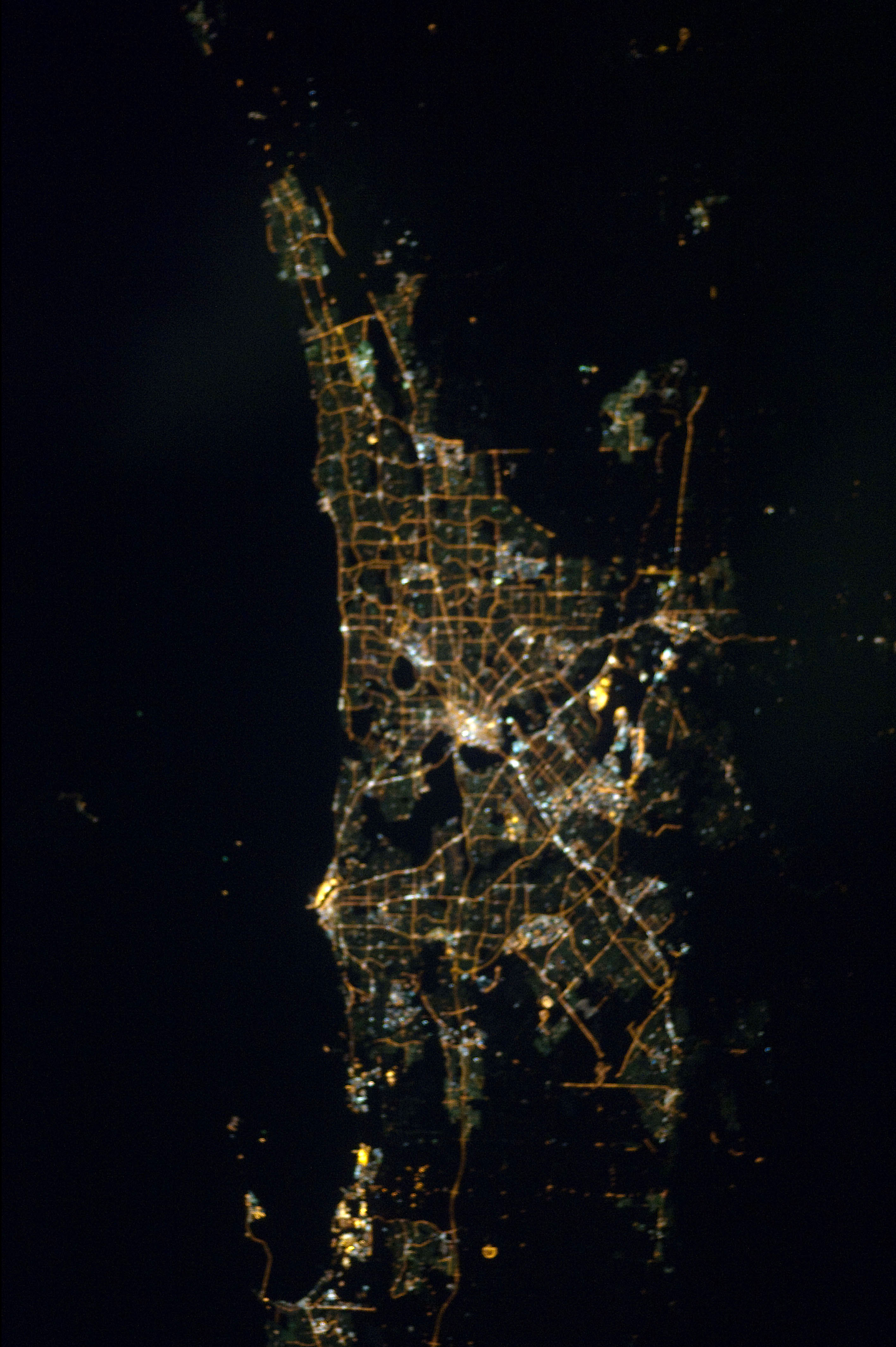 NASA Satellite imagery of the Perth area at night.